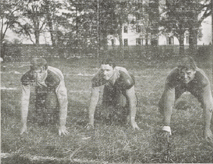 1901 Columbia football backfield, left to right: Bill Morly, Harold Weekes, Chauncey Berrien